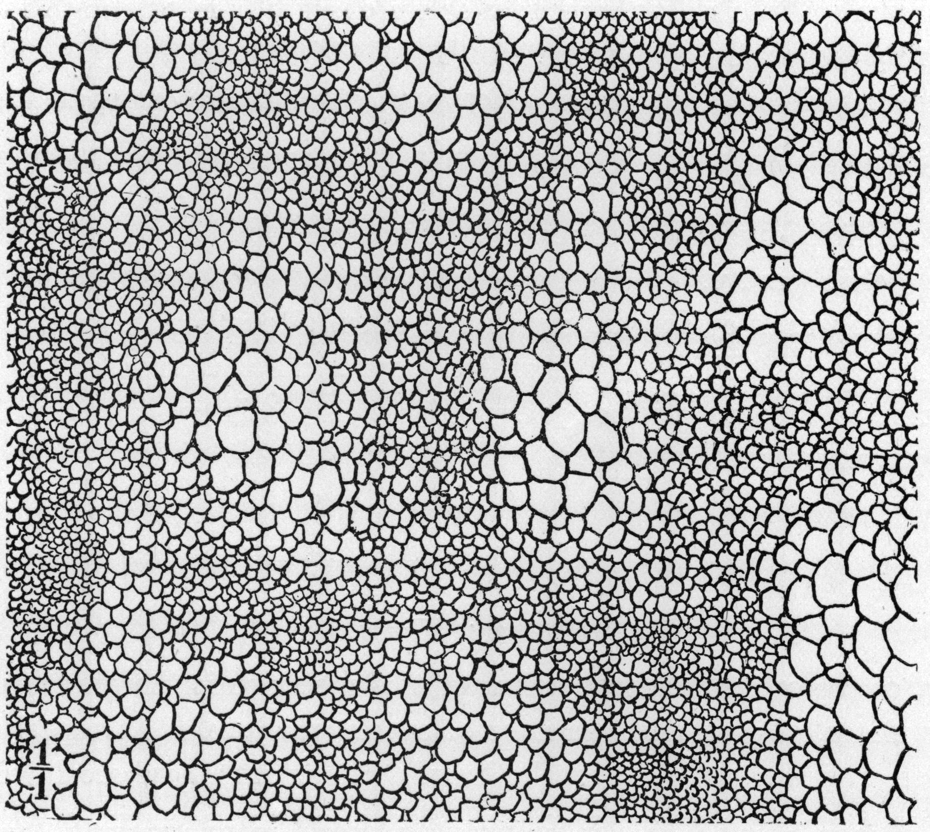 Original description: Fig. 8. Key to epidermal impressions in the abdominal region taken from the lower portion of the integument photographed in Pi. VII, showing more clearly the alternating arrangement of the clusters of large pavement tubercles upon the abdominal integument. It is possible that the pavement tubercles clusters are unnaturally elongated in this area by the longitudinal stretching of the integument.